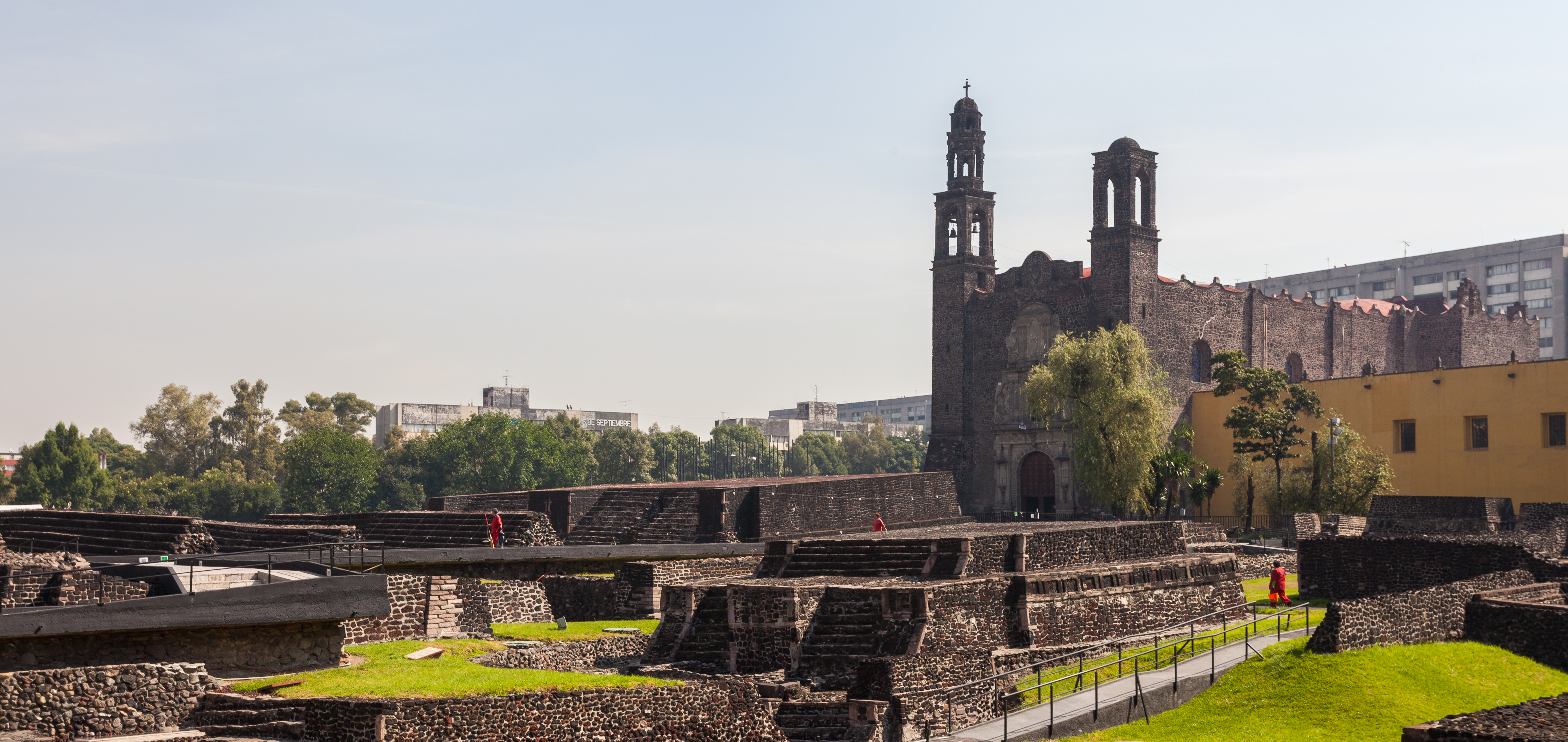 Arheological zone and church of Santiago Tlatelolco, Mexico City, Mexico